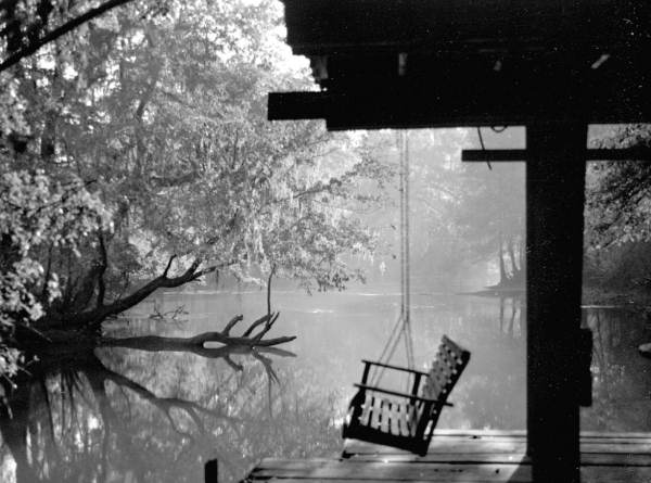 Persistent URL: Local call number: N038882 Title: View of Chipola River from porch Date: ca. ca. 1885 Physical descrip: 1 photonegative - b&w - 4 x 5 in. Series Title: General Collections Repository: State Library and Archives of Florida 500 S. Bronough St., Tallahassee, FL, 32399-0250 USA, Contact: 850.245.6700